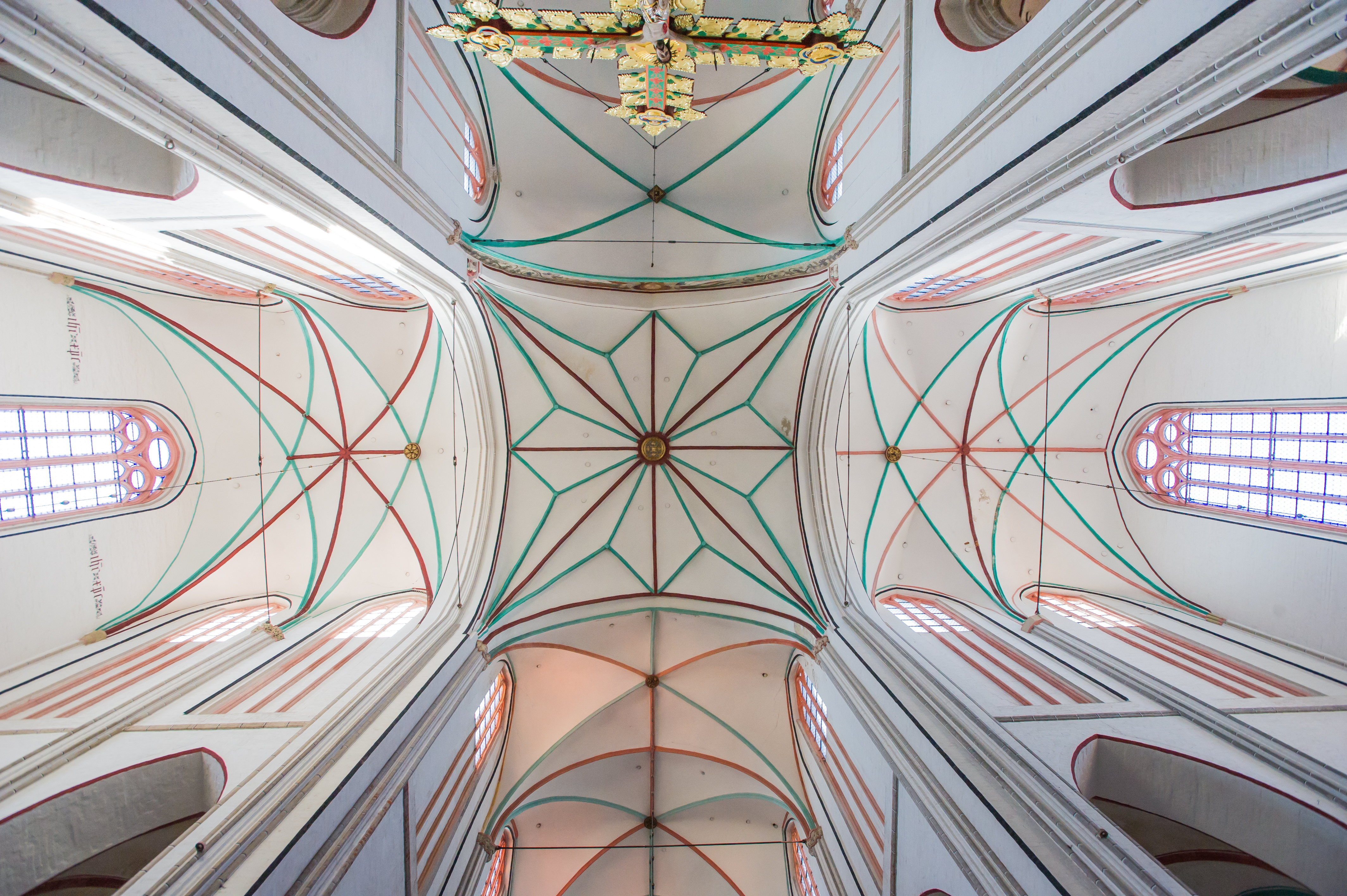 Wikipedia im Landtag – Mecklenburg-Vorpommern 19. bis 21. Juni 2013 in Schwerin Fragen zur Nachnutzung Wenn Sie Fragen zur Nachnutzung dieses Bildes haben, können Sie sich jederzeit gern an wenden Personality rights warning Although this work is freely licensed or in the public domain, the person(s) shown may have rights that legally restrict certain re-uses unless those depicted consent to such uses. In these cases, a model release or other evidence of consent could protect you from infringement claims.